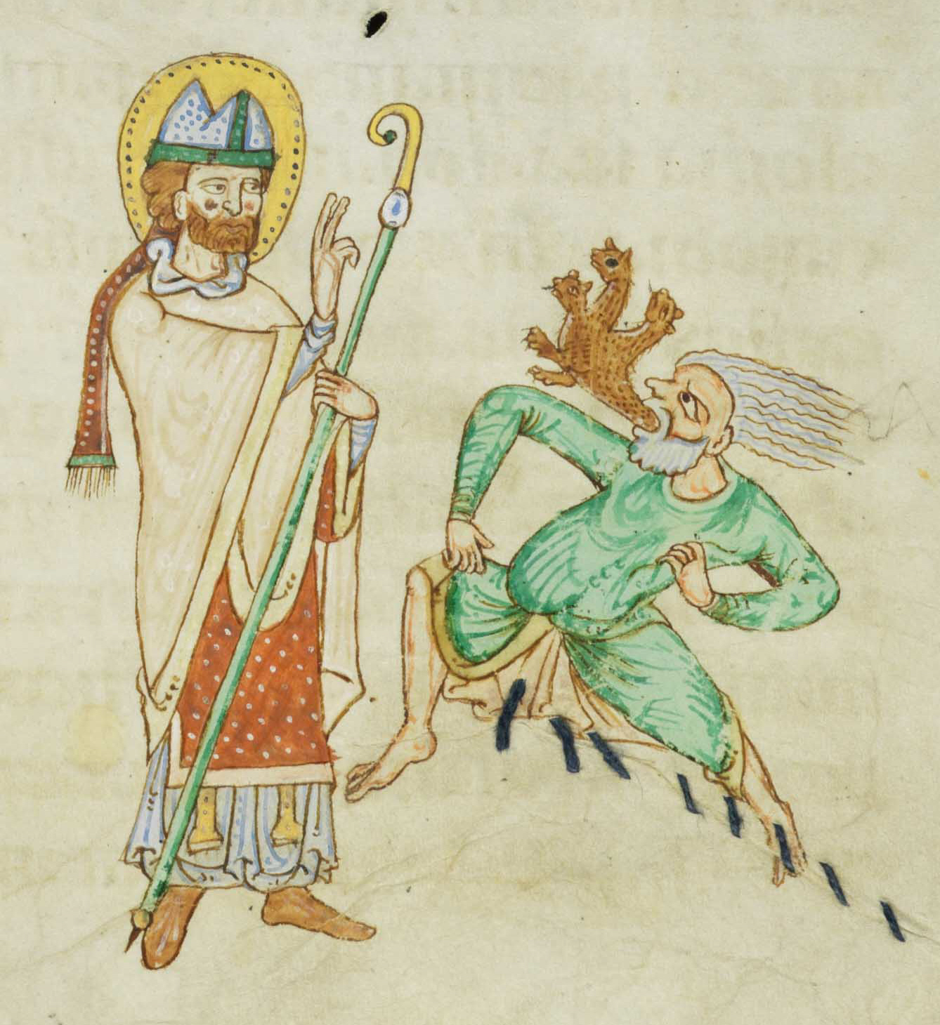 Illumination from the Passionary of Weissenau (Weißenauer Passionale); Fondation Bodmer, Coligny, Switzerland; Cod. Bodmer 127, fol. 191r